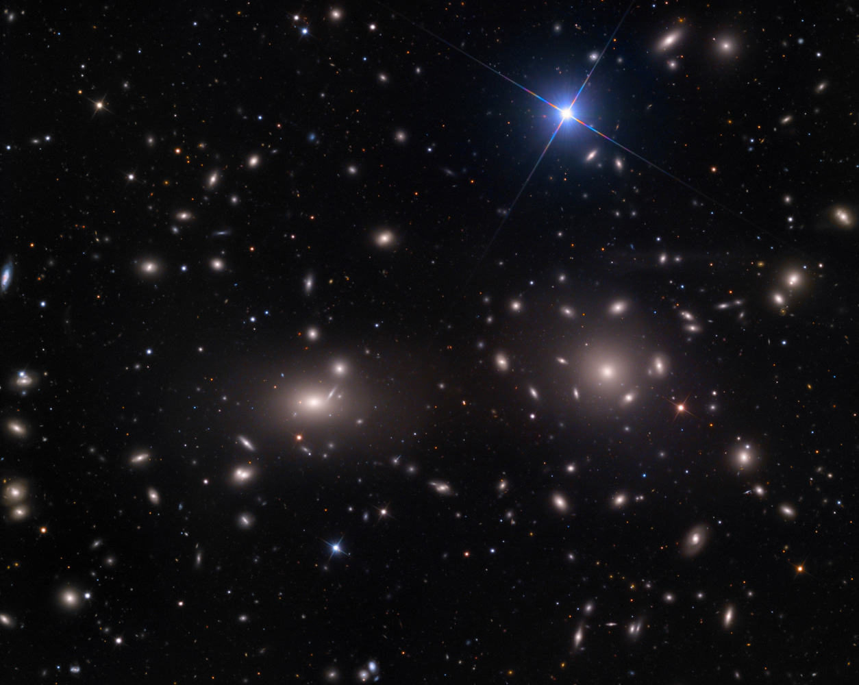 Elements of the Coma Cluster of galaxies. Three of the galaxies seen in this image are IC 4040 (left edge) NGC 4889 (center-left) NGC 4874 (center-right). The bright star in the upper right is HD 112887. See image annotations. Picture Details: Optics 32-inch Schulman Telescope (RC Optical Systems), Acquired remotely Camera SBIG STX 16803 CCD Camera Filters AstroDon Gen II Dates February 2012 Location Mount Lemmon SkyCenter Exposure LRGB = 320:120:120:120 minutes Acquisition ACP Observatory Control Software (DC-3 Dreams),TheSky (Software Bisque), Maxim DL/CCD (Cyanogen) Processing CCDStack (CCDWare), Photoshop CS5 (Adobe), PixInsight Credit Line and Copyright: Adam Block/Mount Lemmon SkyCenter/University of Arizona